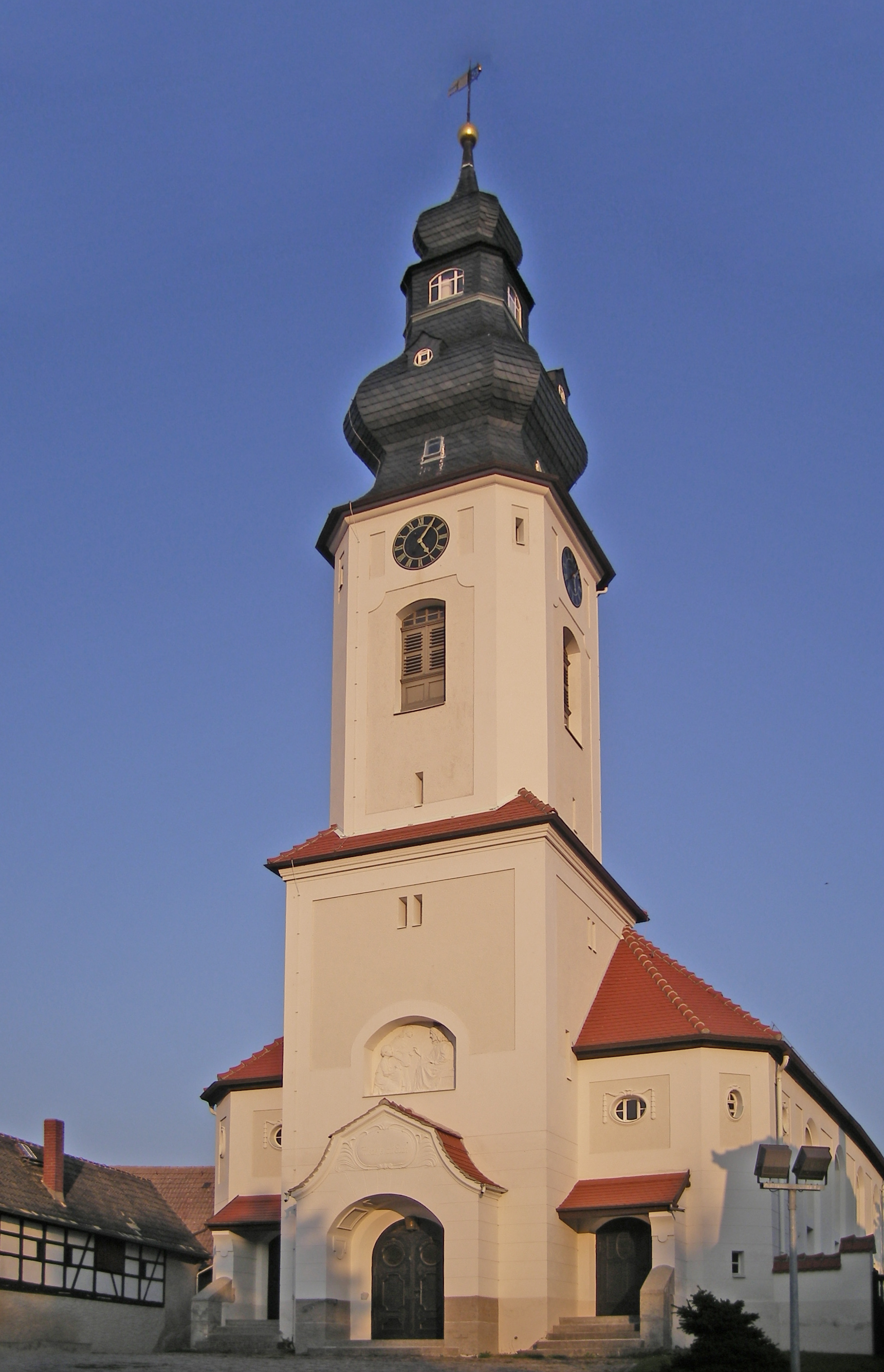 Church in Wintersdorf/Thuringia near Altenburg